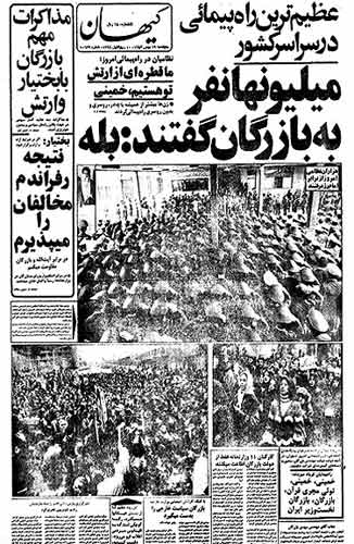 Kayhan Newspaper, February 08, 1979